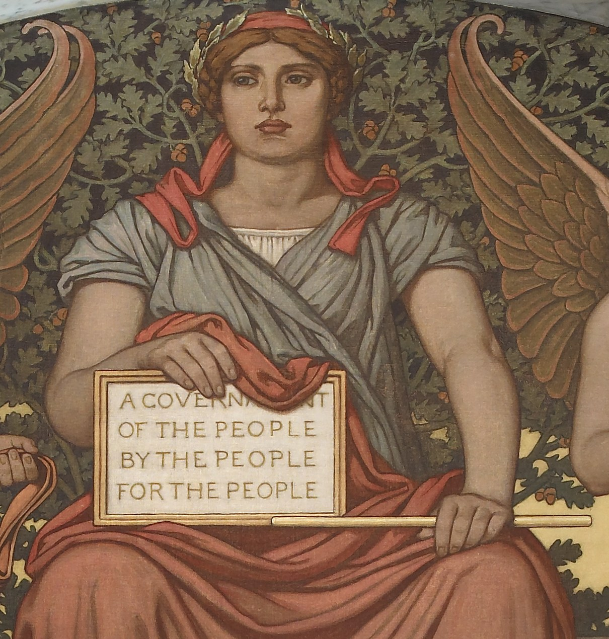 Detail from Government. Mural by Elihu Vedder. Lobby to Main Reading Room, Library of Congress Thomas Jefferson Building, Washington, D.C. Main figure is seated atop a pedestal saying "GOVERNMENT" and holding a tablet saying "A GOVERNMENT / OF THE PEOPLE / BY THE PEOPLE / FOR THE PEOPLE". Artist's signature is "ELIHU VEDDER / ROMA–1896".